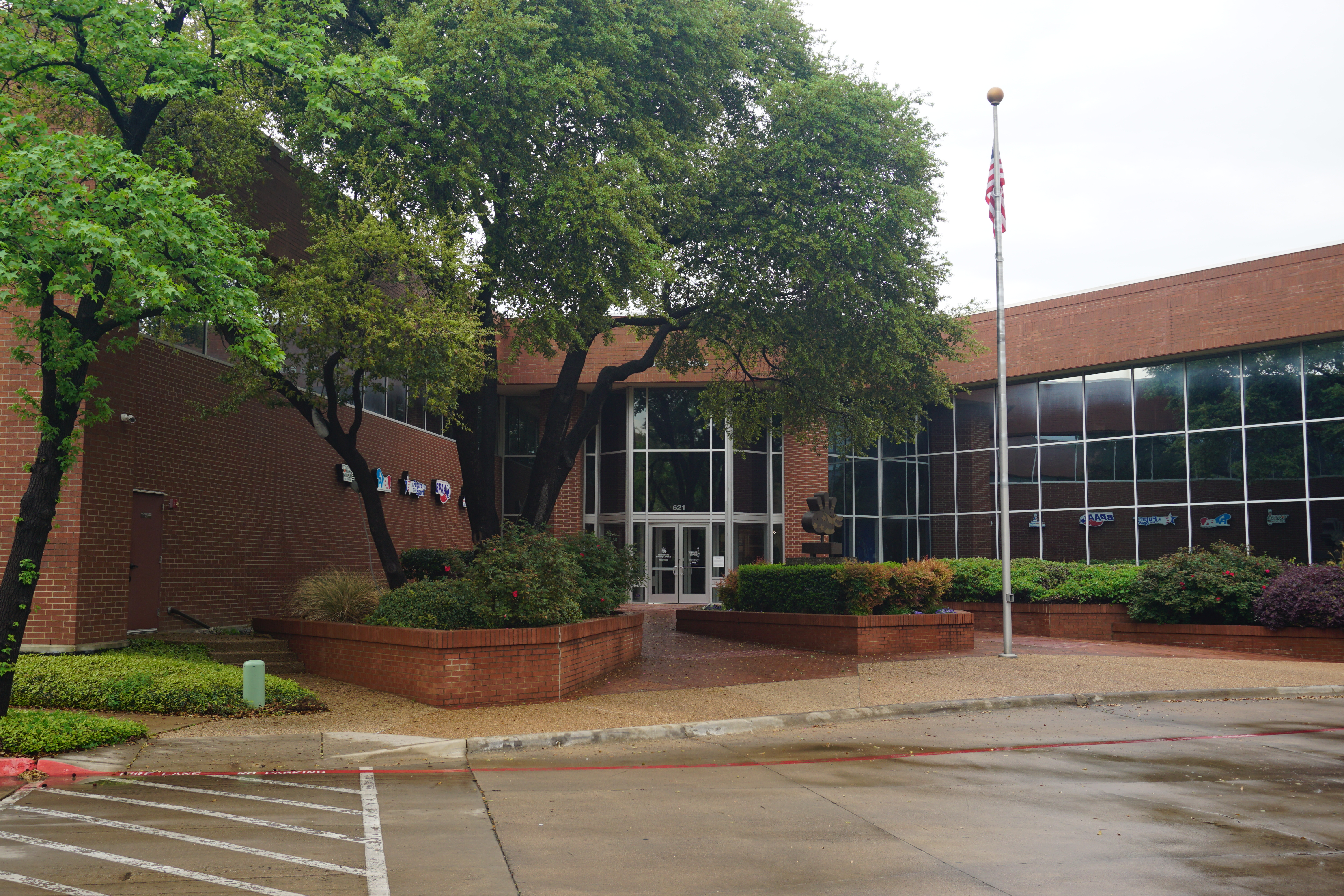 The exterior of the International Bowling Museum and Hall of Fame in Arlington, Texas (United States).